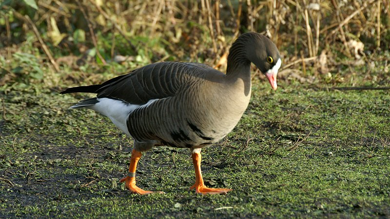 Lesser white fronted goose (Anser erythropus)